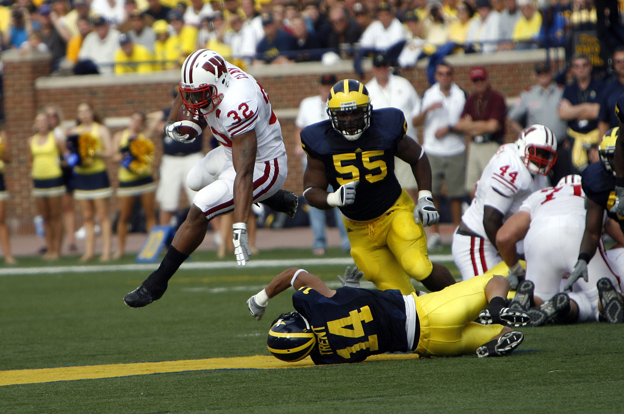 John Clay (#32 for Wisconsin) carries the ball against Michigan